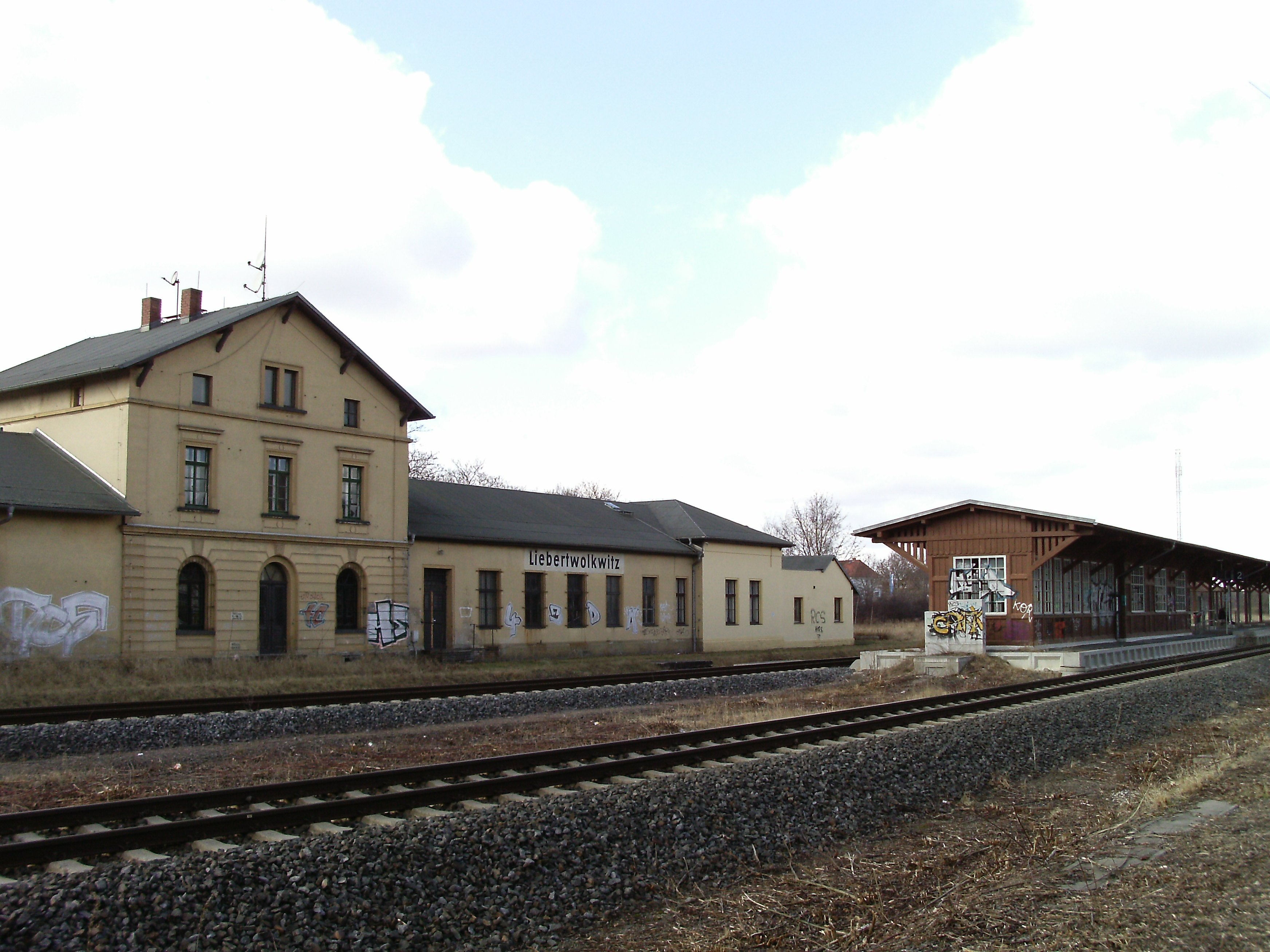 Liebertwolkwitz train station (Leipzig, Saxony)